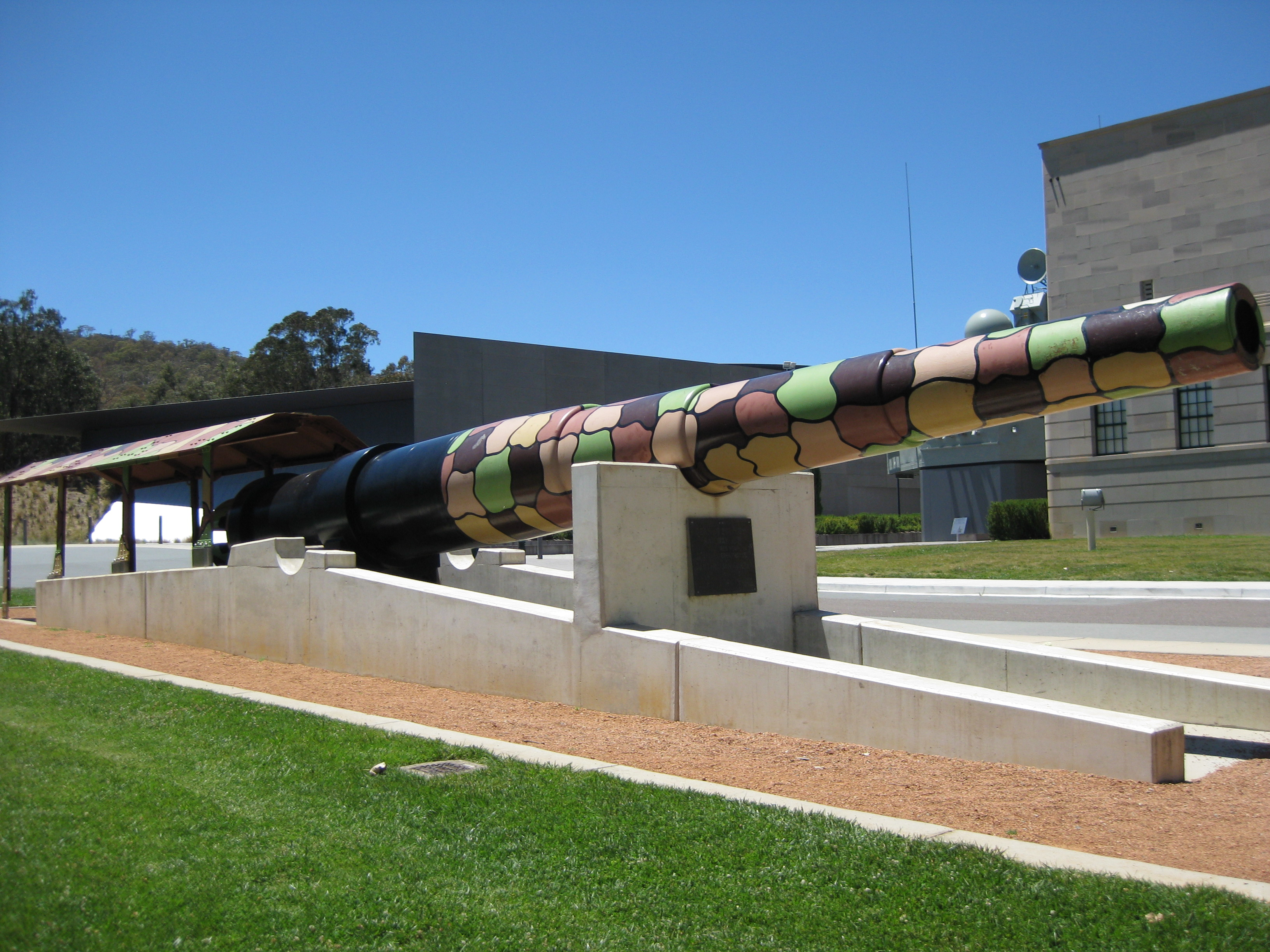 The 'Amiens Gun' captured by Australian soldiers in 1918 on display at the Australian War Memorial in 2009